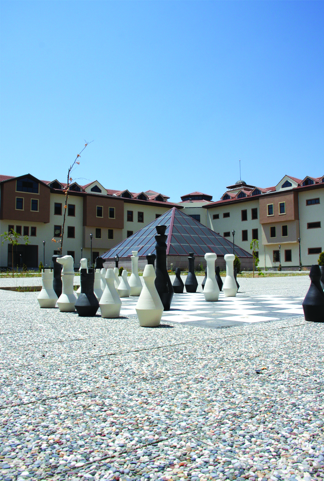 Kütahya Dumlupınar University, Faculty of Fine Arts